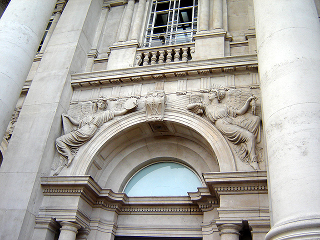 Detail of front portico, Tate Britain, Millbank, Pimlico, London. 29 October 2005. Photographer: Fin Fahey